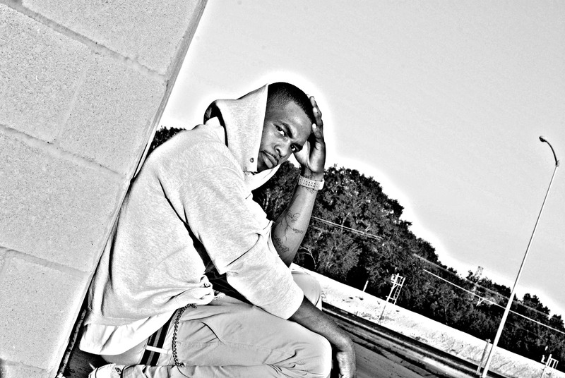 K. Jackson Promo Picture